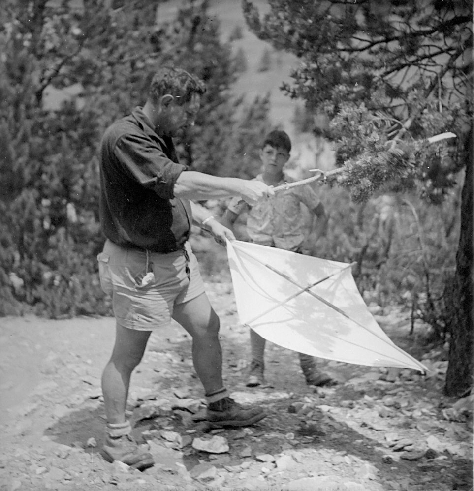 André Villiers looking for insects